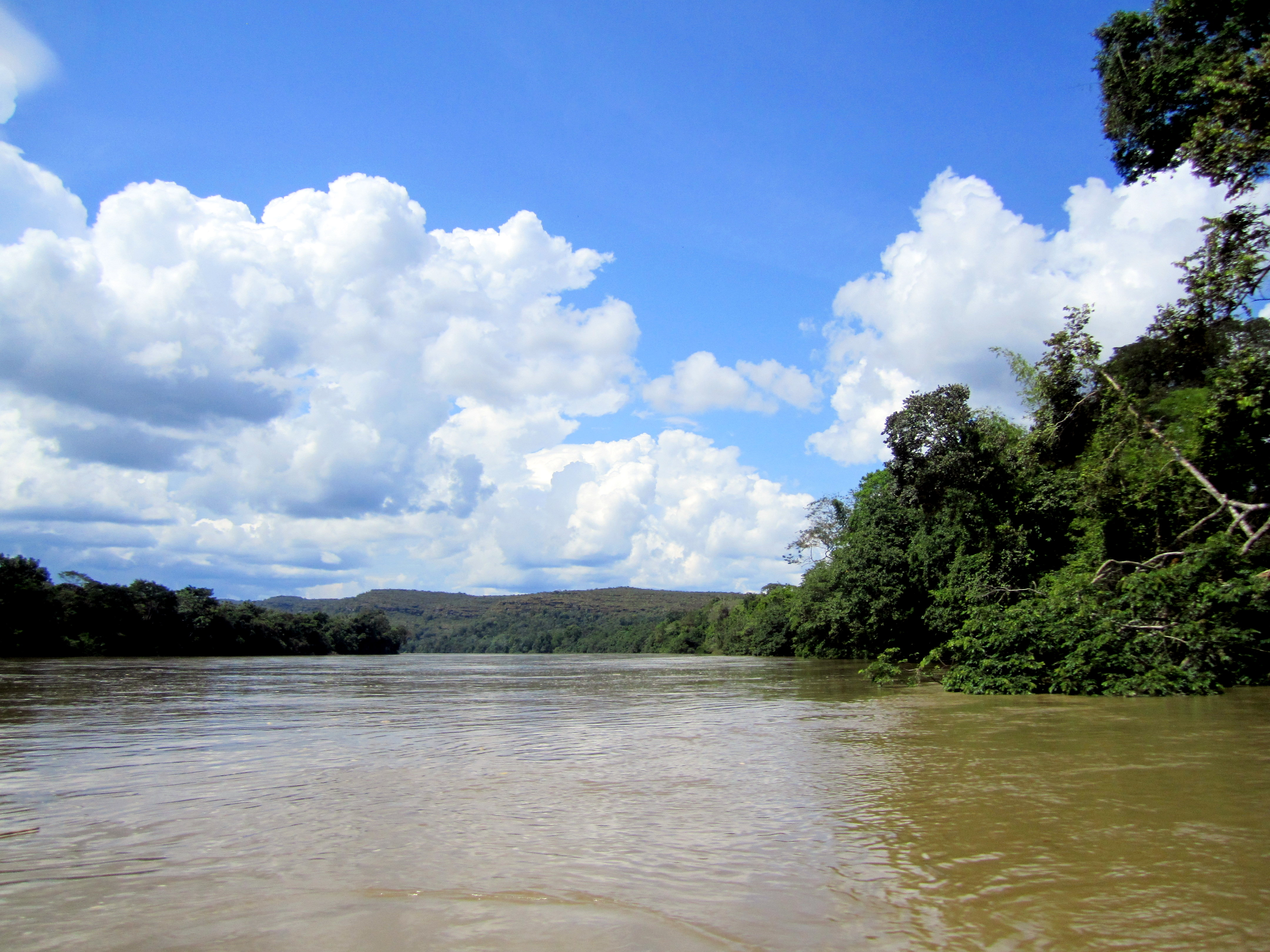 Guayabero River. Near La Macarena, La Macarena.